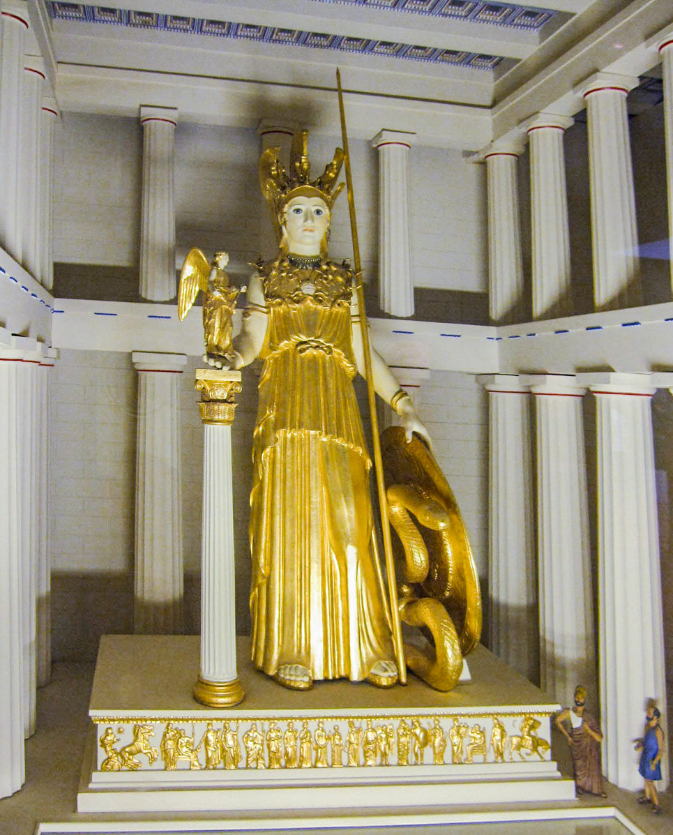 This golden statue of Athena was the crowning jewel of the Parthenon, located atop the Acropolis in Athens, Greece. This Athena statue was removed when Greece adopted Christianity and converted the Parthenon into a church; the statue's fate is unknown. Later, the Parthenon served as a munitions storage depot, and a medieval explosion reduced it to the ruins seen today.